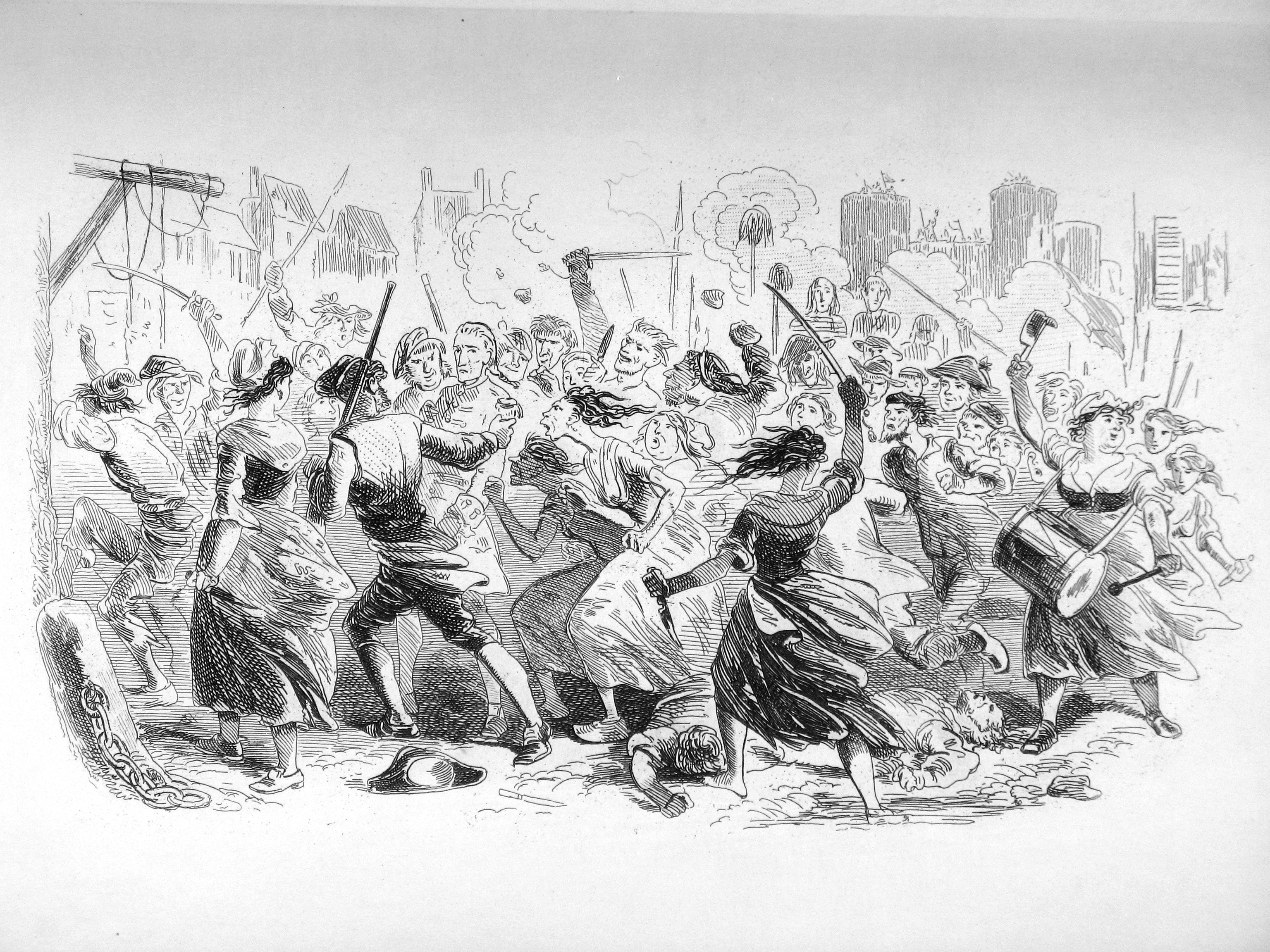 A photograph of an engraving in The Writings of Charles Dickens volume 20, A Tale of Two Cities, titled "The Sea rises".